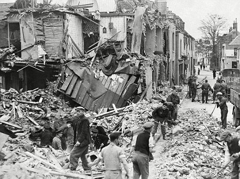 Photo of World War II bomb damage in Canterbury, 1940.